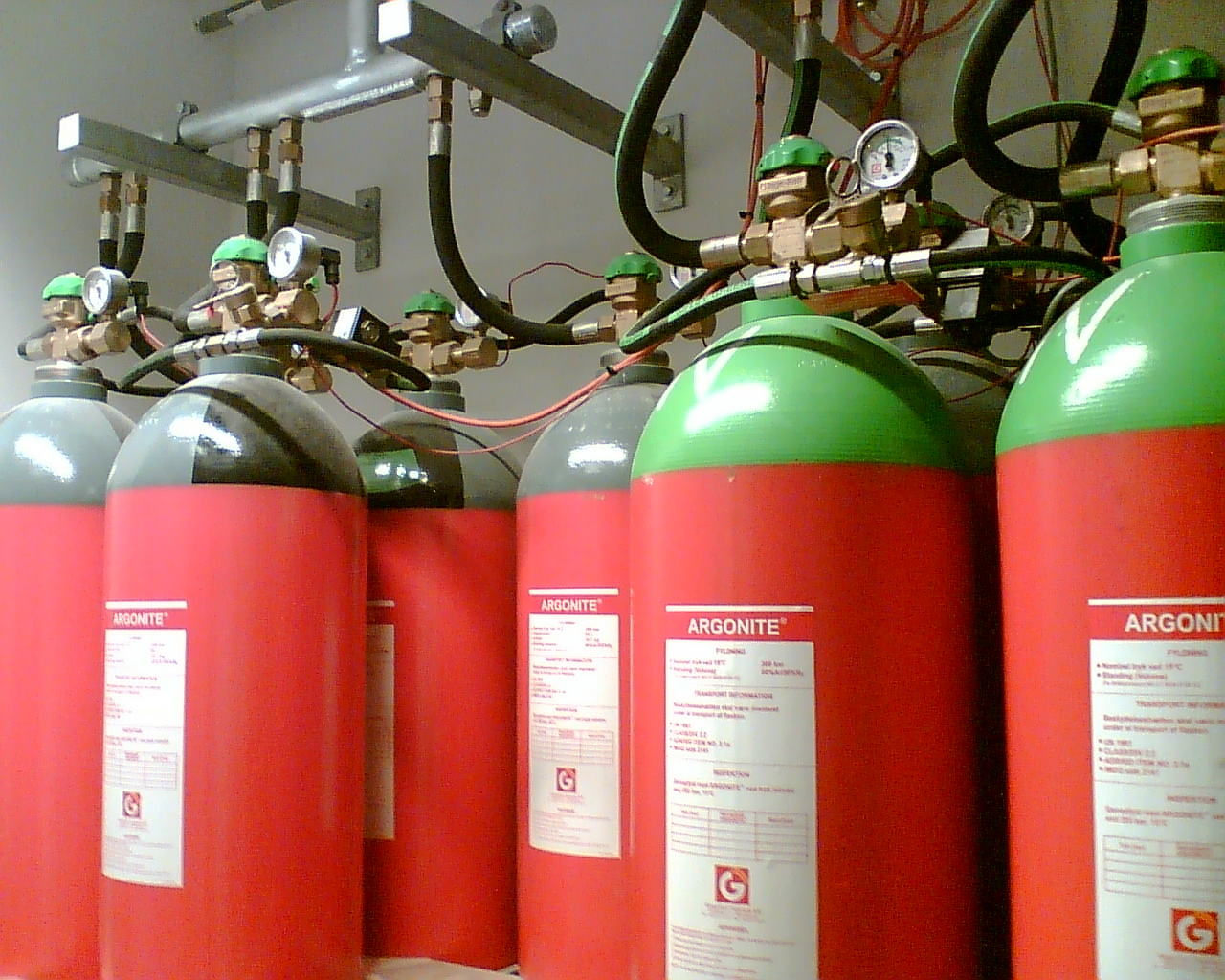 Argonite automatic fire suppression system - located within a server room facility.